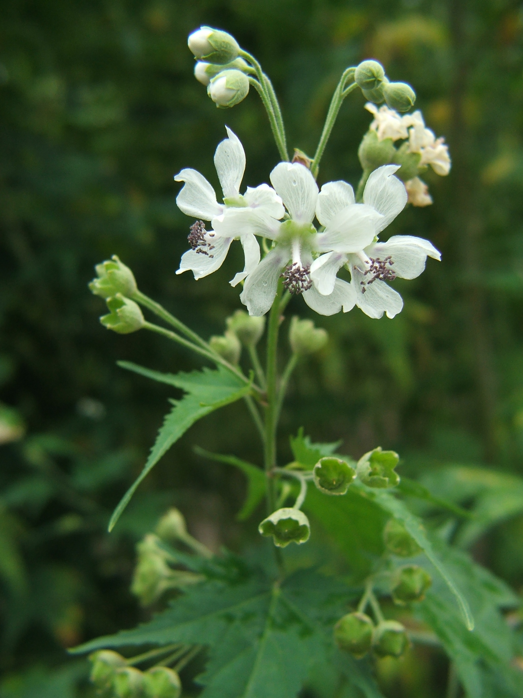 Flowers of Sida hermaphrodita